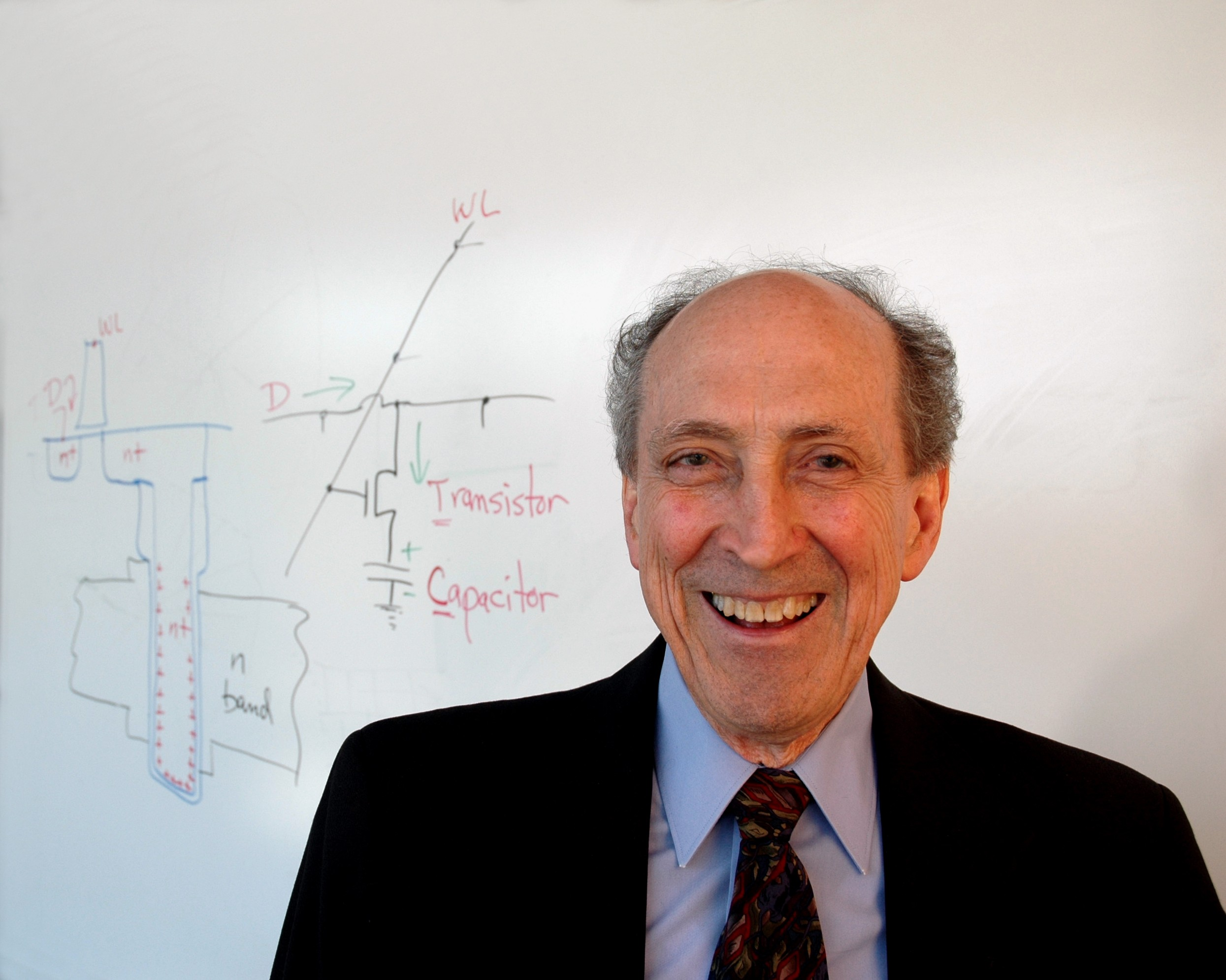 Robert Dennard, American electrical engineer who invented dynamic random access memory (DRAM)